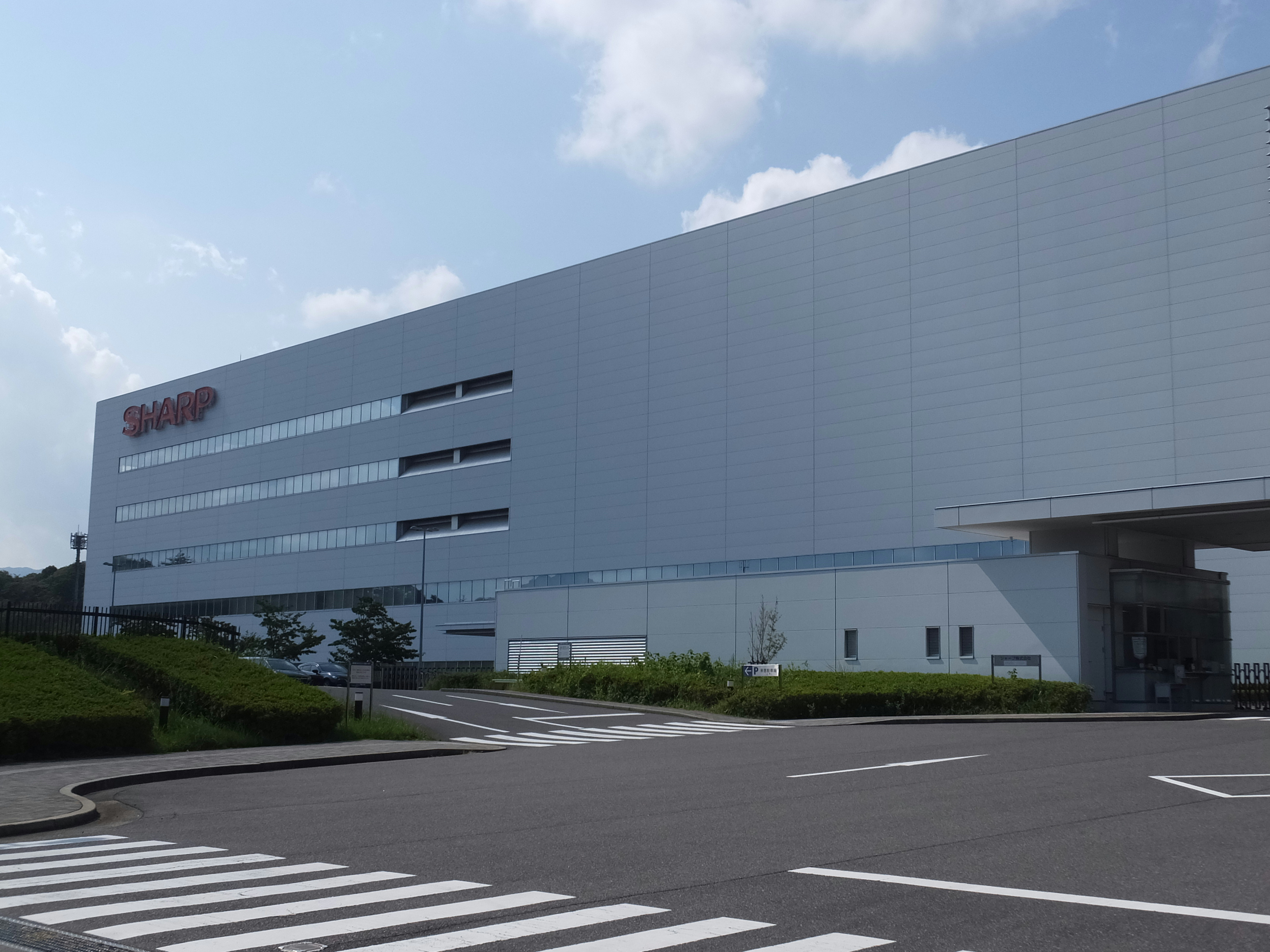 SHARP KAMEYAMA Plnt No1.